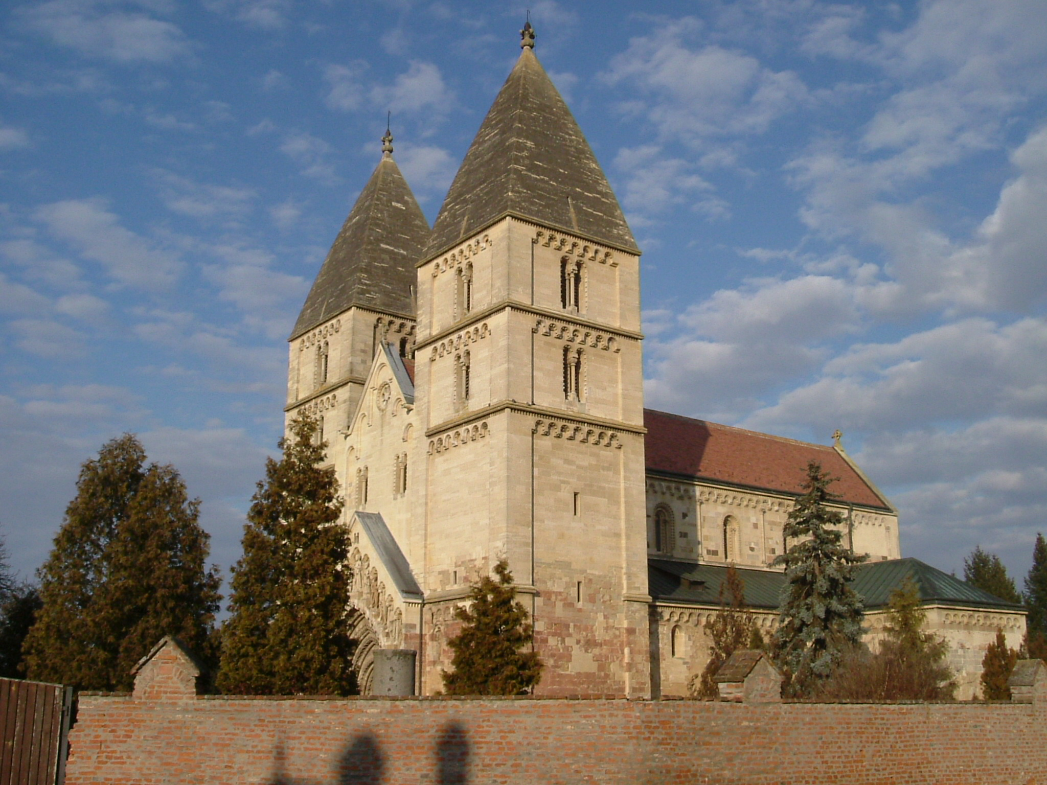 Church - Ják, Hungary, Author: Peter Kaboldy